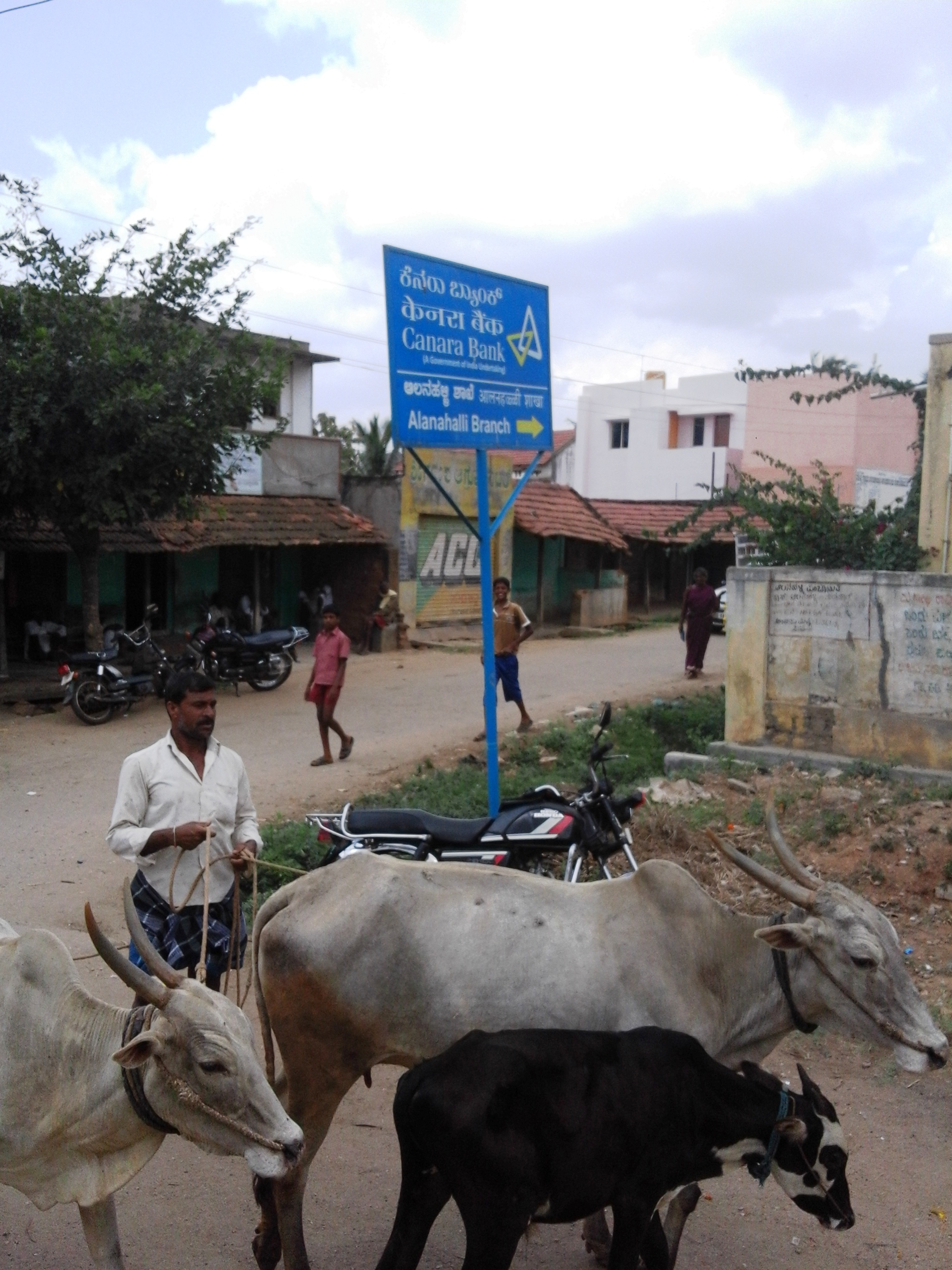 Bhogadi Road, Mysore district, Karnataka state India.